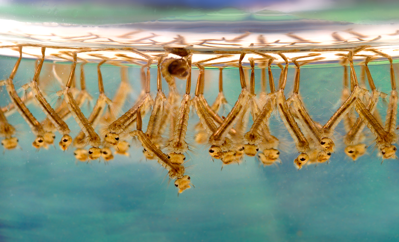 Larvae of Culex Mosquitoes. As seen on the picture, larvae make dense groups in standing water. A shift in the feeding behavior of those mosquitoes helps explain the rising incidence of West Nile virus in North America. It appears that the darker structure at the top center of the image is one pupa.